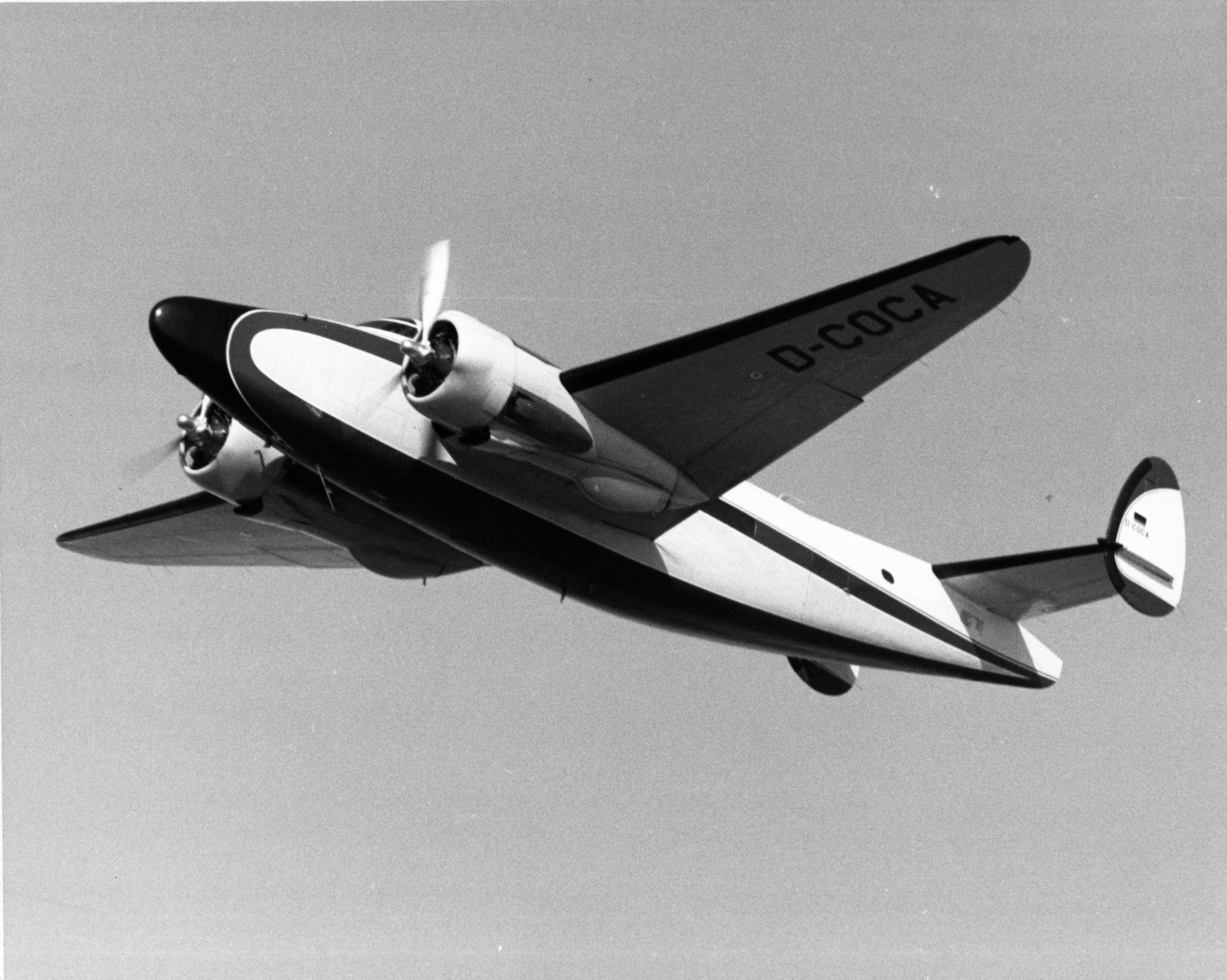 Image from the Dohm-Zweng Collection Repository: San Diego Air and Space Museum